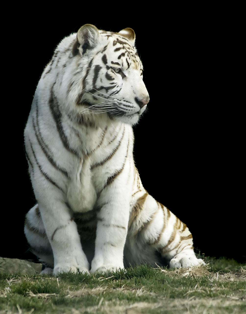 White tiger. Gunma Safari Park. Tomioka-city, Gunma-pref, Japan.